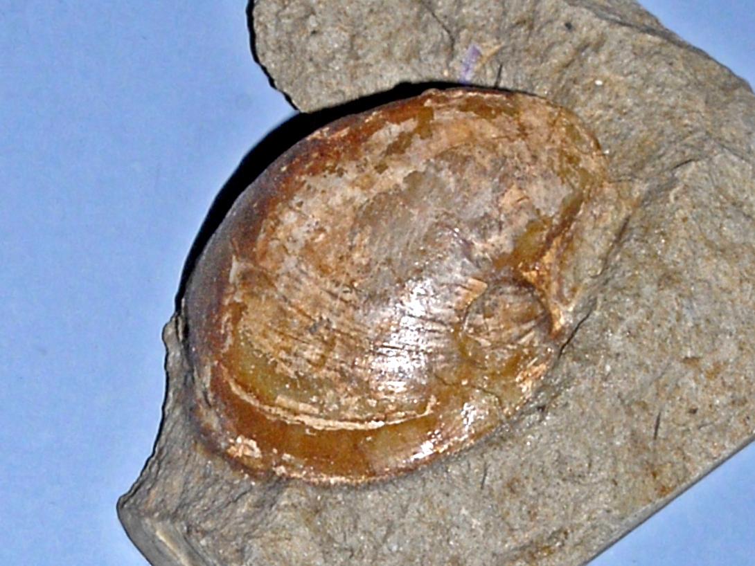 Fossil of Modiolus species, on display at the Museo Paleontologico Giulio Maini, Ovada